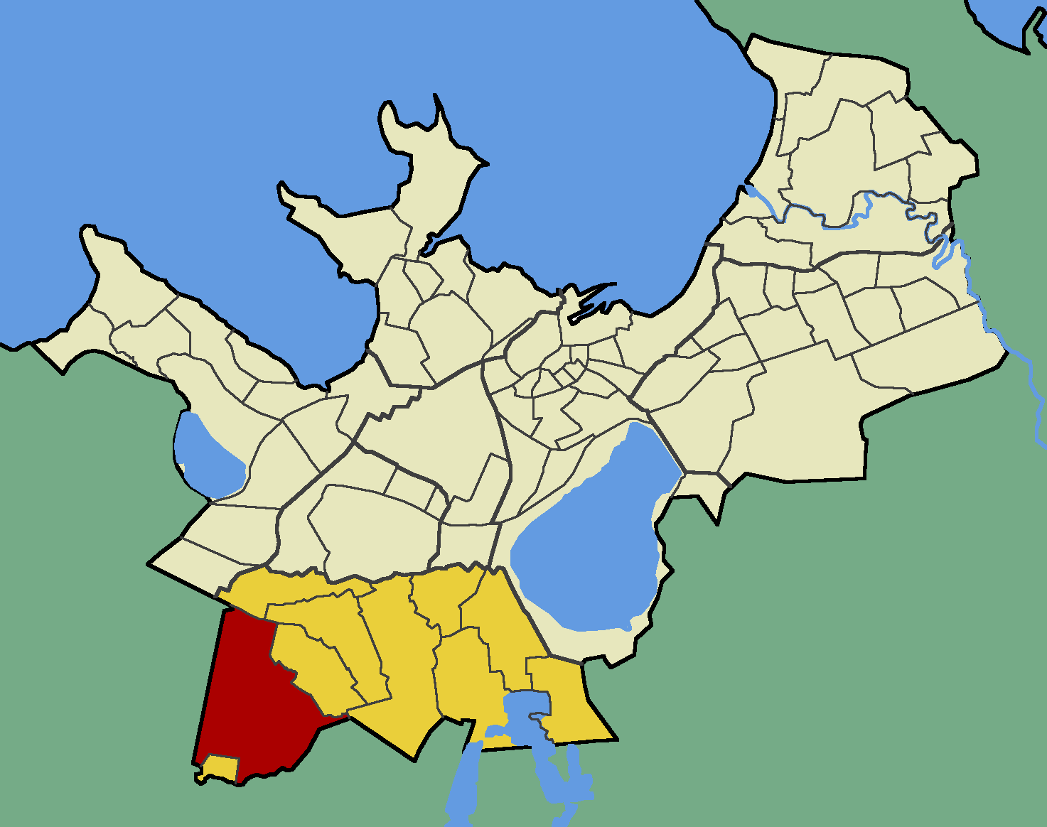 Map of Tallinn (Estonia) with borders of the quarters, Nõmme district and Pääsküla quarter emphasised